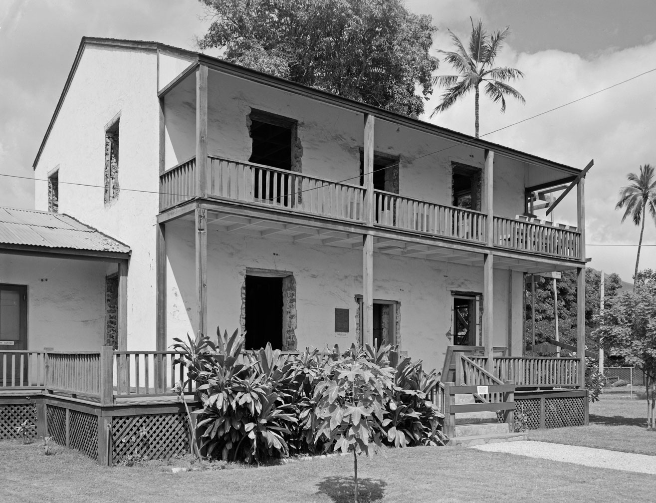 Historic home of American missionary to Maui Dwight Baldwin during reconstruction of 1966. This is a contributing property of the Lahaina Historic District on the National Register of Historic Places. It was originally built from 1833-1834. In 1840 another bedroom and study were added, and a second floor in 1849 as the family grew.